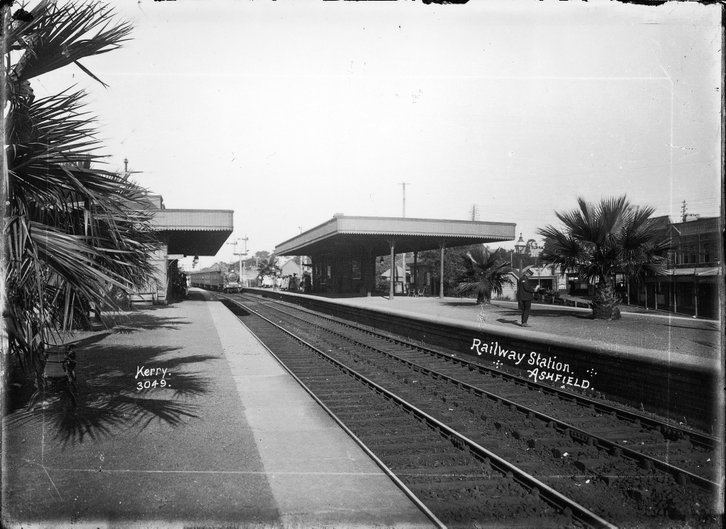 Ashfield railway station circa 1900